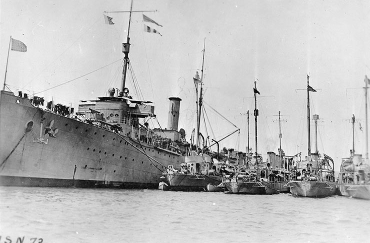 USS Melville (Destroyer Tender # 2) Tending U.S. Navy destroyers at Queenstown, Ireland, 1917. The destroyers present include (from left to right): USS Jacob Jones (Destroyer # 61) USS Ericsson (Destroyer # 56) USS Wadsworth (Destroyer # 60) and an unidentified ship. U.S. Naval Historical Center Photograph.